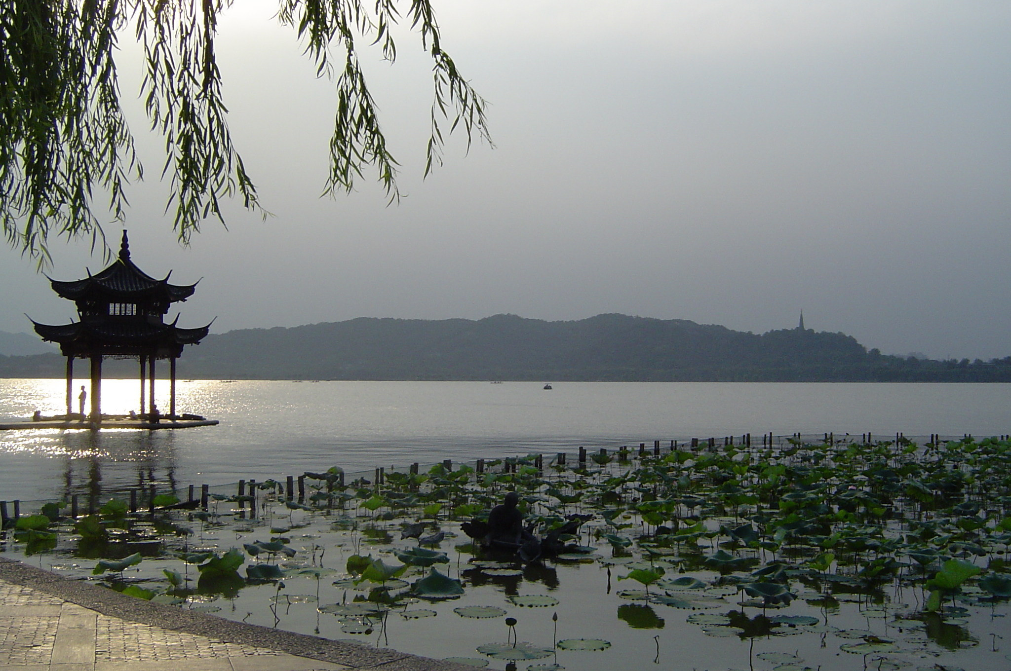 China's famous West Lake. Photograph taken by User:Nat Krause,summer 2004.